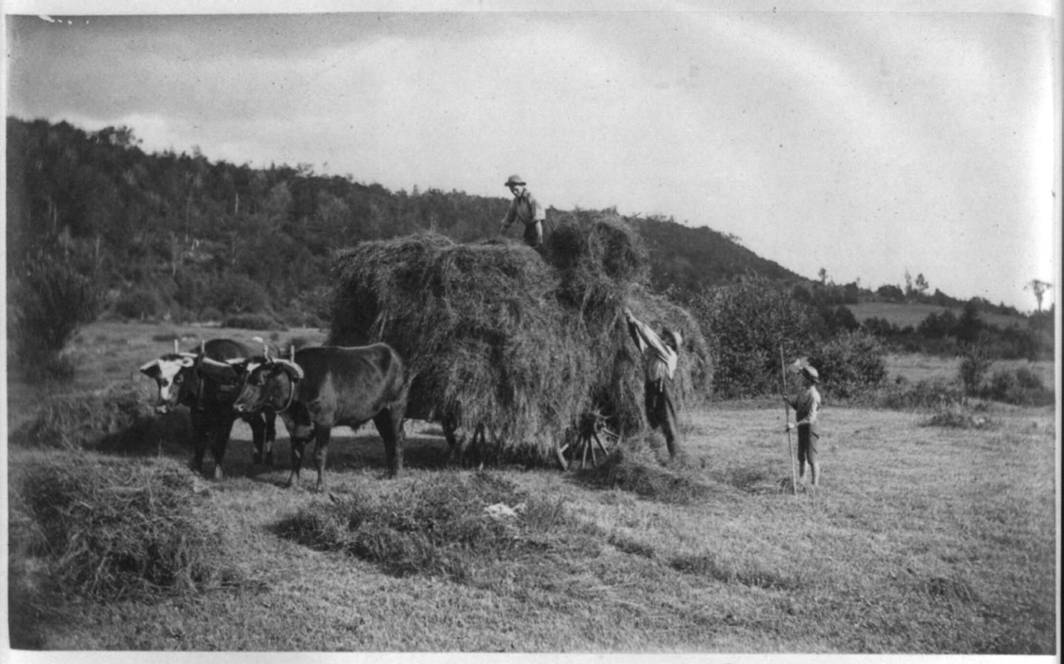 The last load